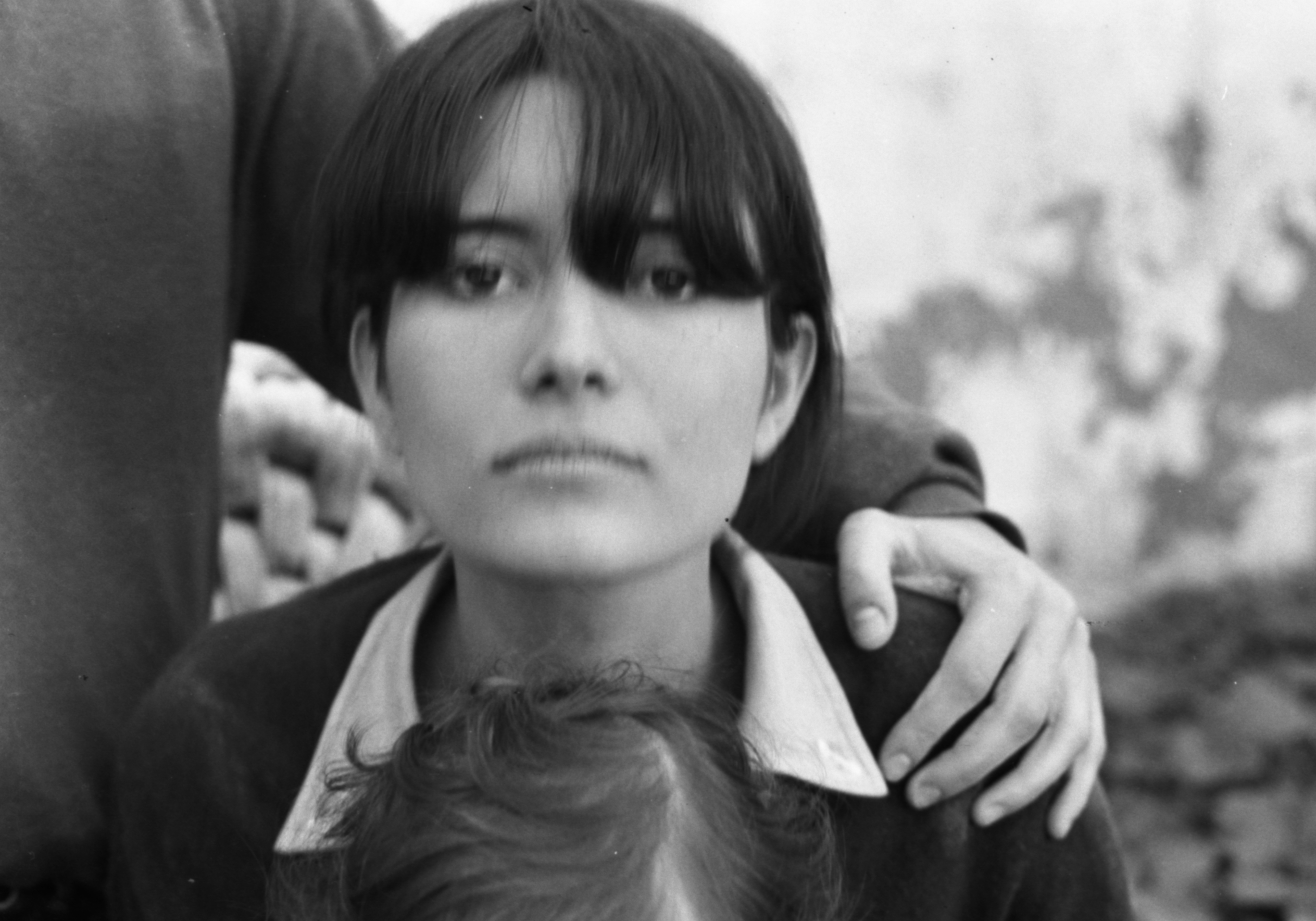 Maria Cabral in 1966, actress from Portugal. Photo by João Cutileiro